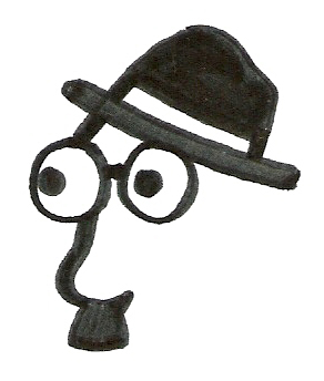 Fernando Pessoa